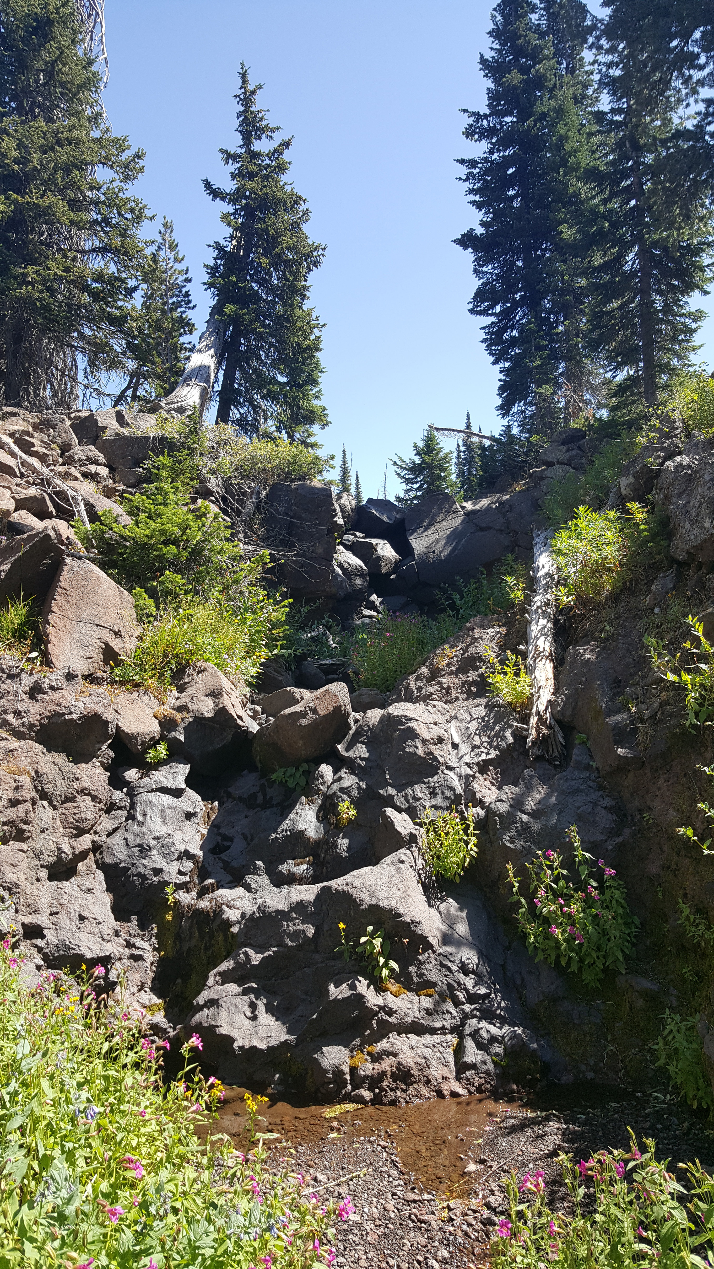 A likely location of Brower's Spring